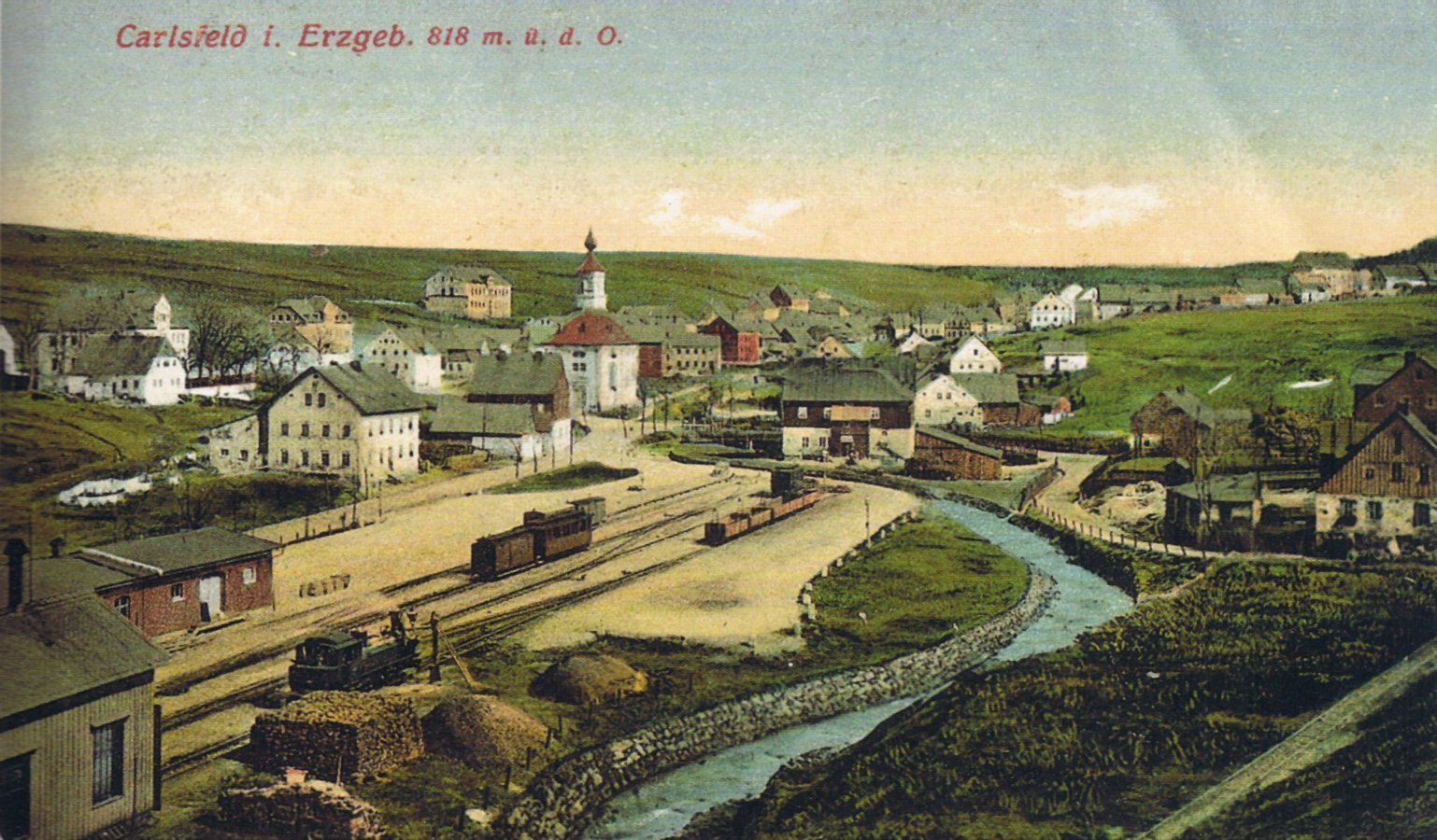 Carlsfeld station